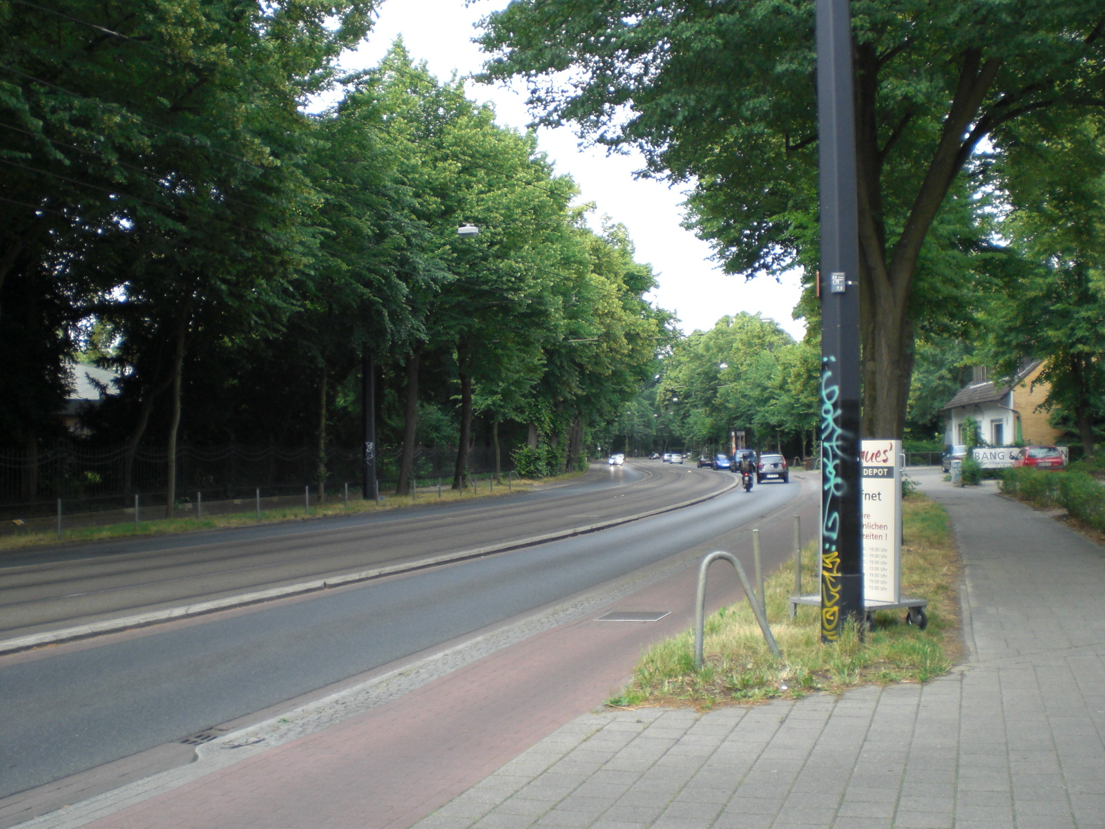 Bremen: Schwachhauser Heerstraße: major street in Bremen, Germany